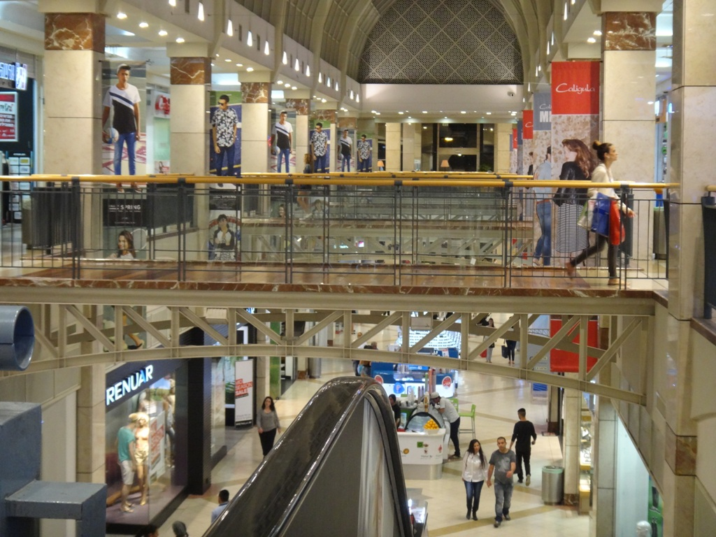 Inside view of Holon Mall